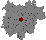 Location of Santpedor in Bages